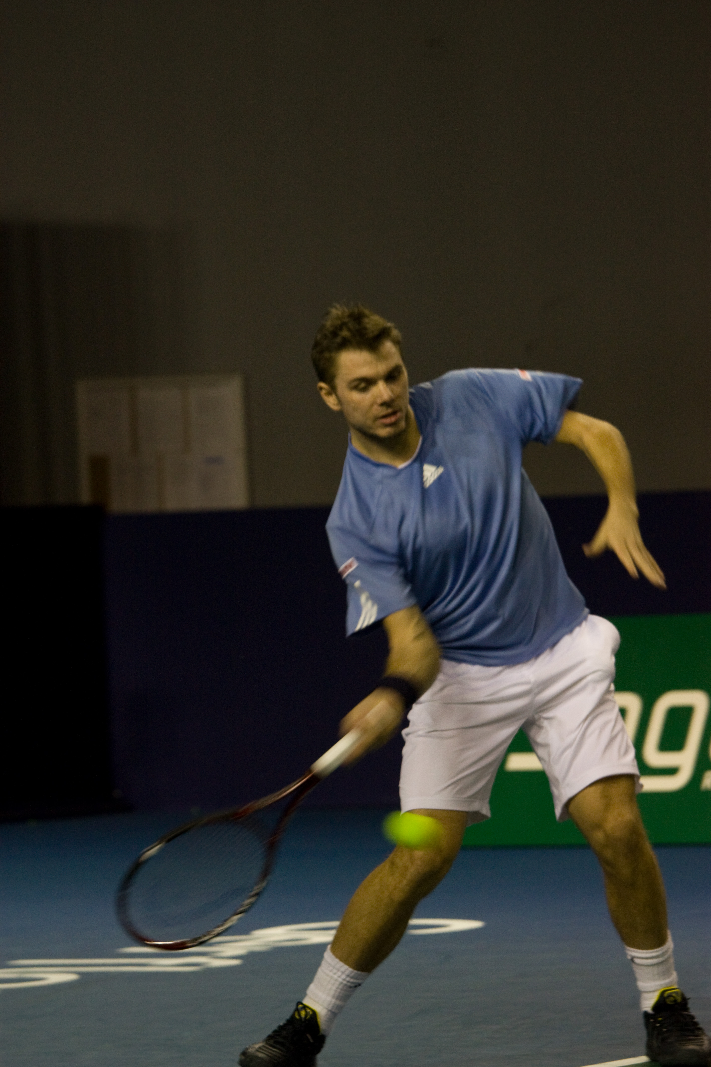 Stanislas Wawrinka against Tomas Berdych at the 2008 BNP Paribas Masters